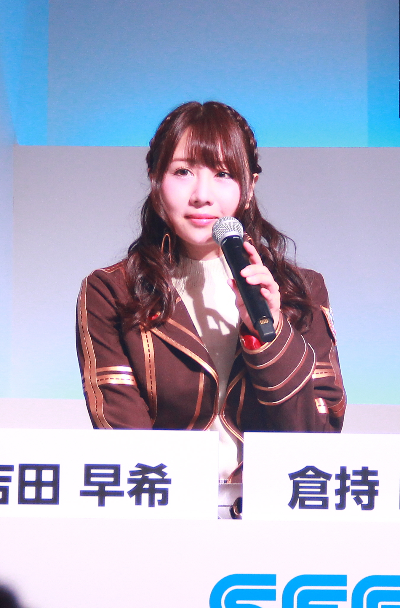 Tokyo Game Show 2016: Saki Yoshida.